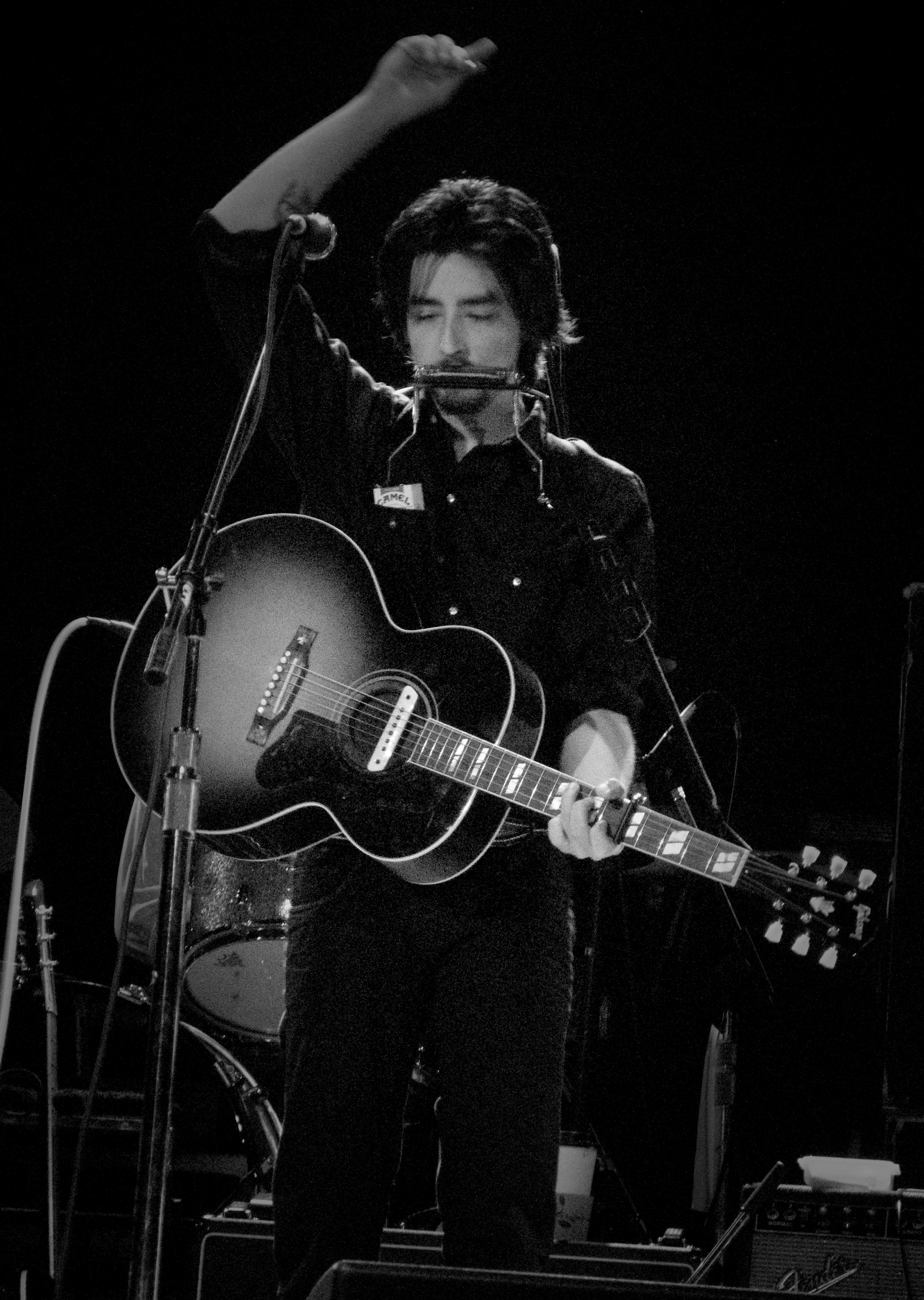 Jackie Greene at The Catalyst in Santa Cruz, March 22/09.